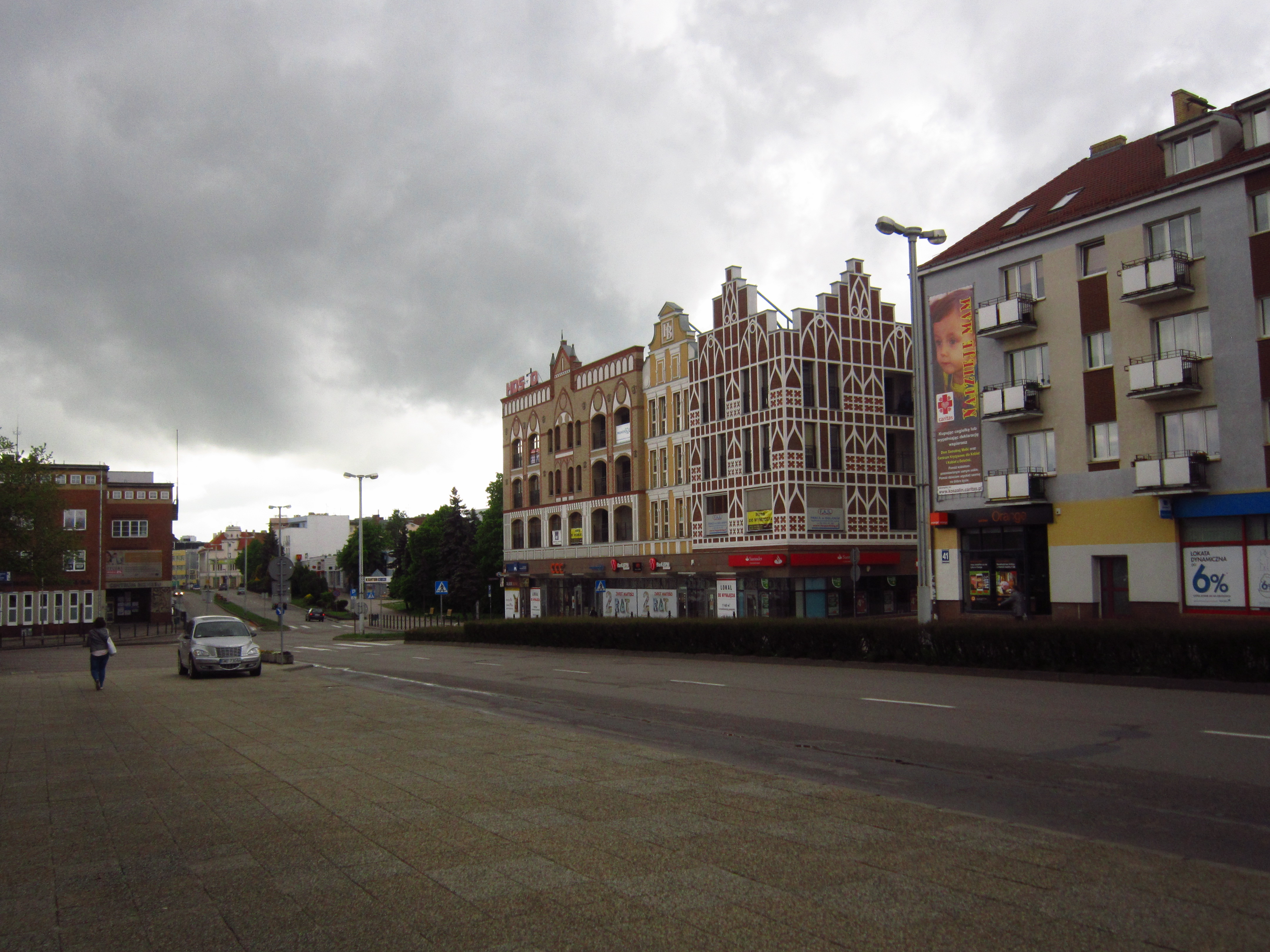 Victory Street in Koszalin.